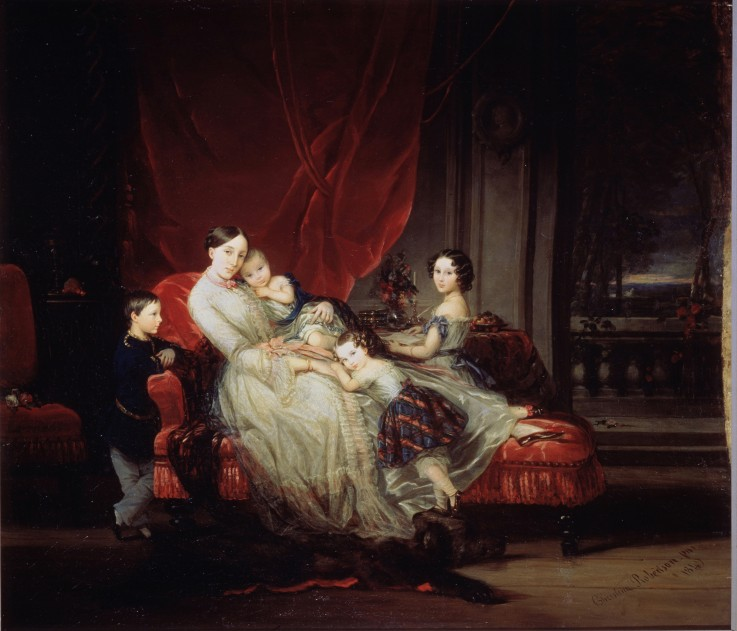 Duchess Maria of Leuchtenberg (former Grand Duchess Maria Nikolaevna of Russia)with her four older children.